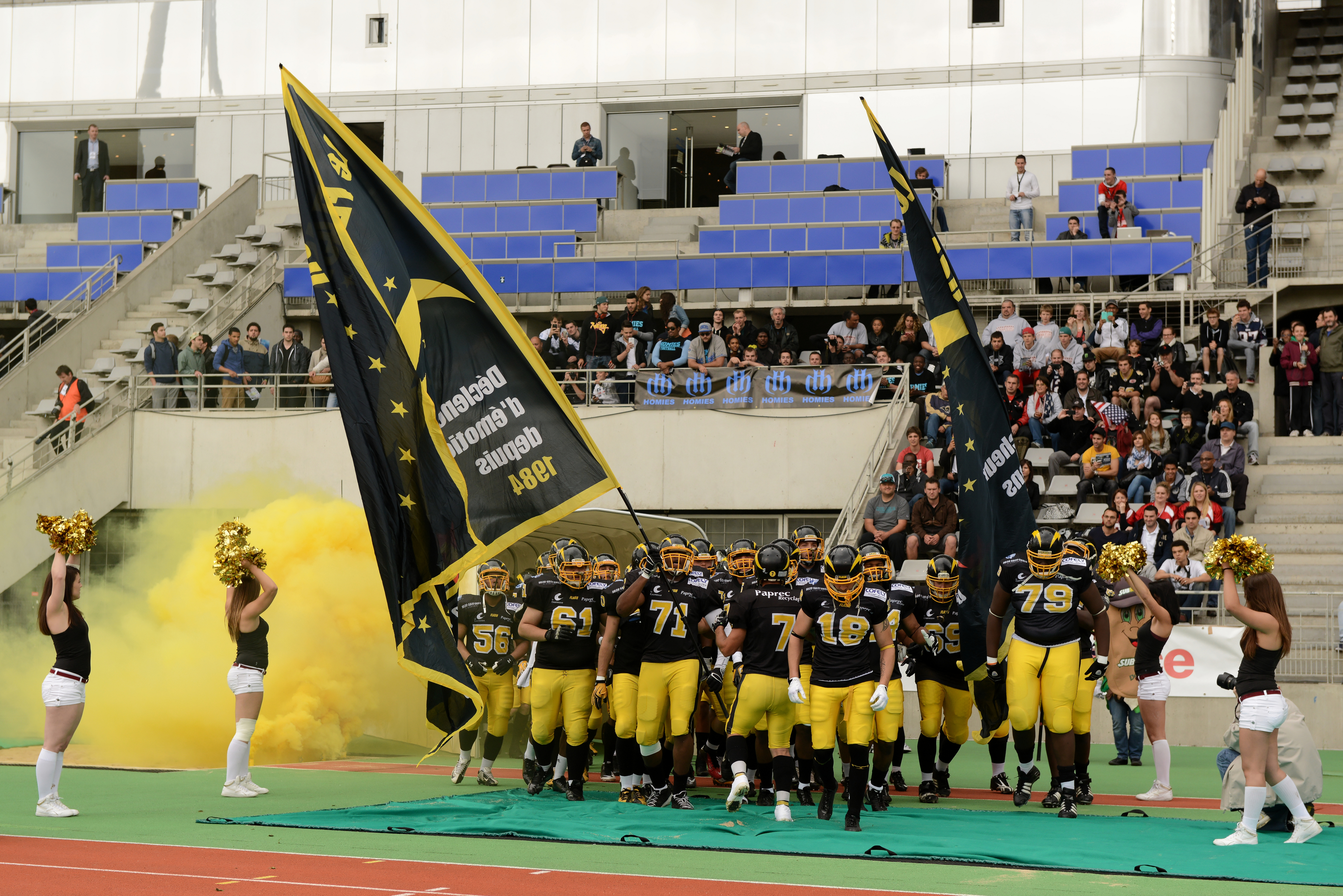 The La Courneuve Flashs are introduced before the final of the French American Football Championship 2013 at Stade Charléty in Paris.